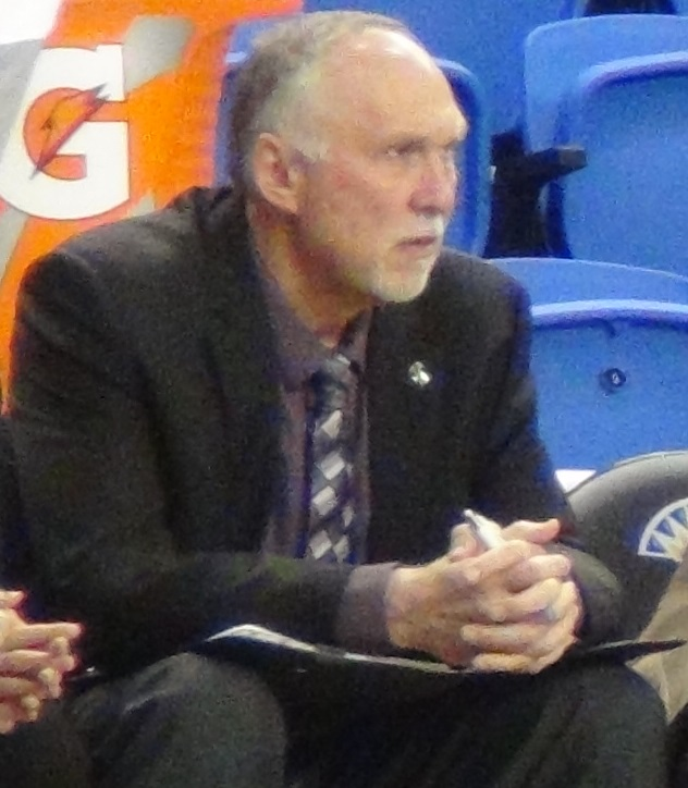 Gerald Mattinson, head women's basketball coach at the University of Wyoming since 2019, sits on the bench on March 3, 2017, as assistant coach for Wyoming during an away game against San Jose State at the Event Center in San Jose, California.